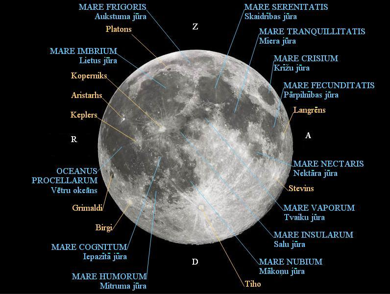 Lunar nearside with major maria and craters labelled.(translated to latvian)